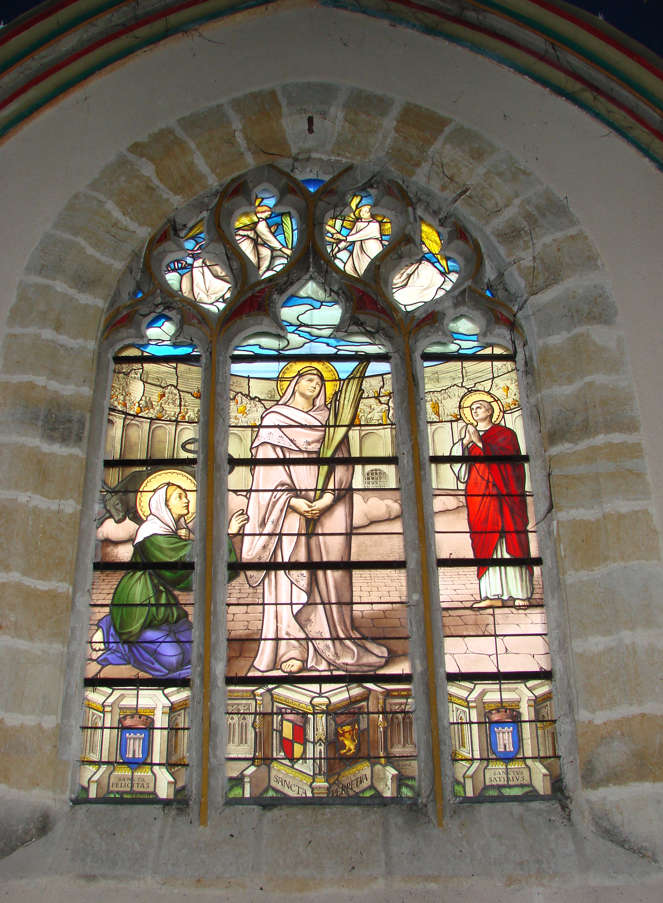 Stainde-glass window of St Perpetua of Carthage (church of Notre-Dame of Vierzon, France, 19th century): martyrdom of St Pepetua and her fellows in the stadium of Carthage; saint Felicity on her left